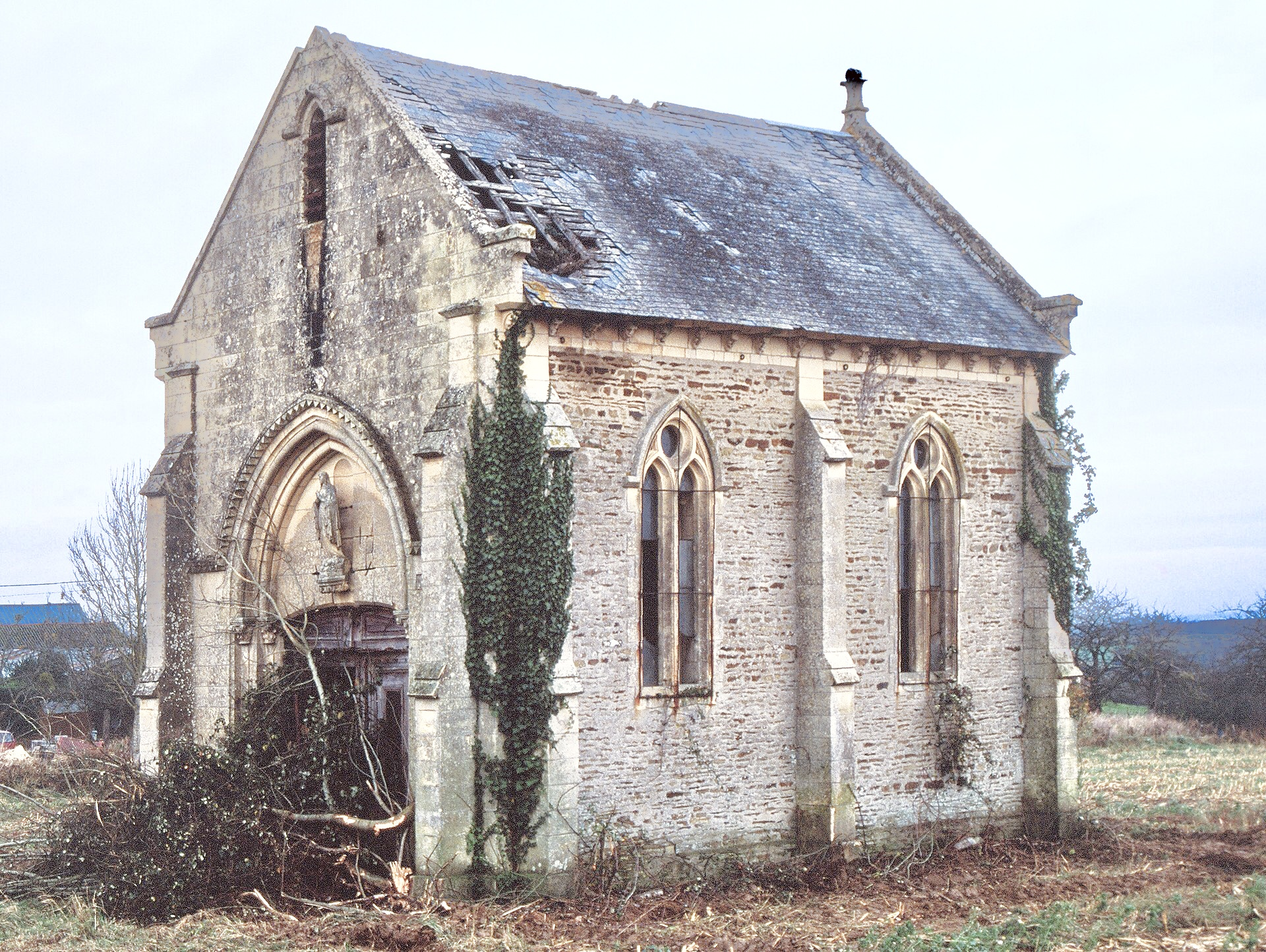 Chapel (oratory) of the Madonna (1874), to ruin, of Trois-monts village (14)